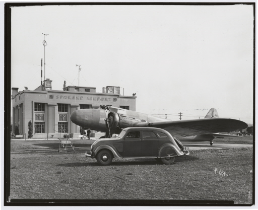 United Air Lines plane and Desoto Automobile at Spokane Airport, now Felts Field. 1934